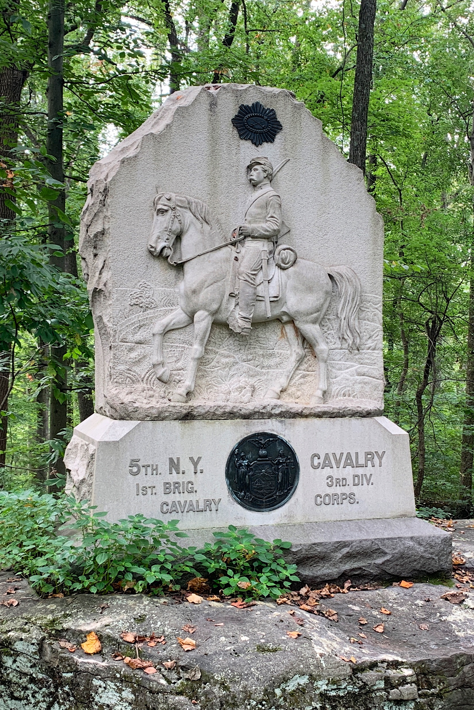 Monument to the 5th New York Cavalry at Bushman Woods, southwest of Big Round Top, contributing to the Gettysburg National Military Park. LCS 009860 MN370-B